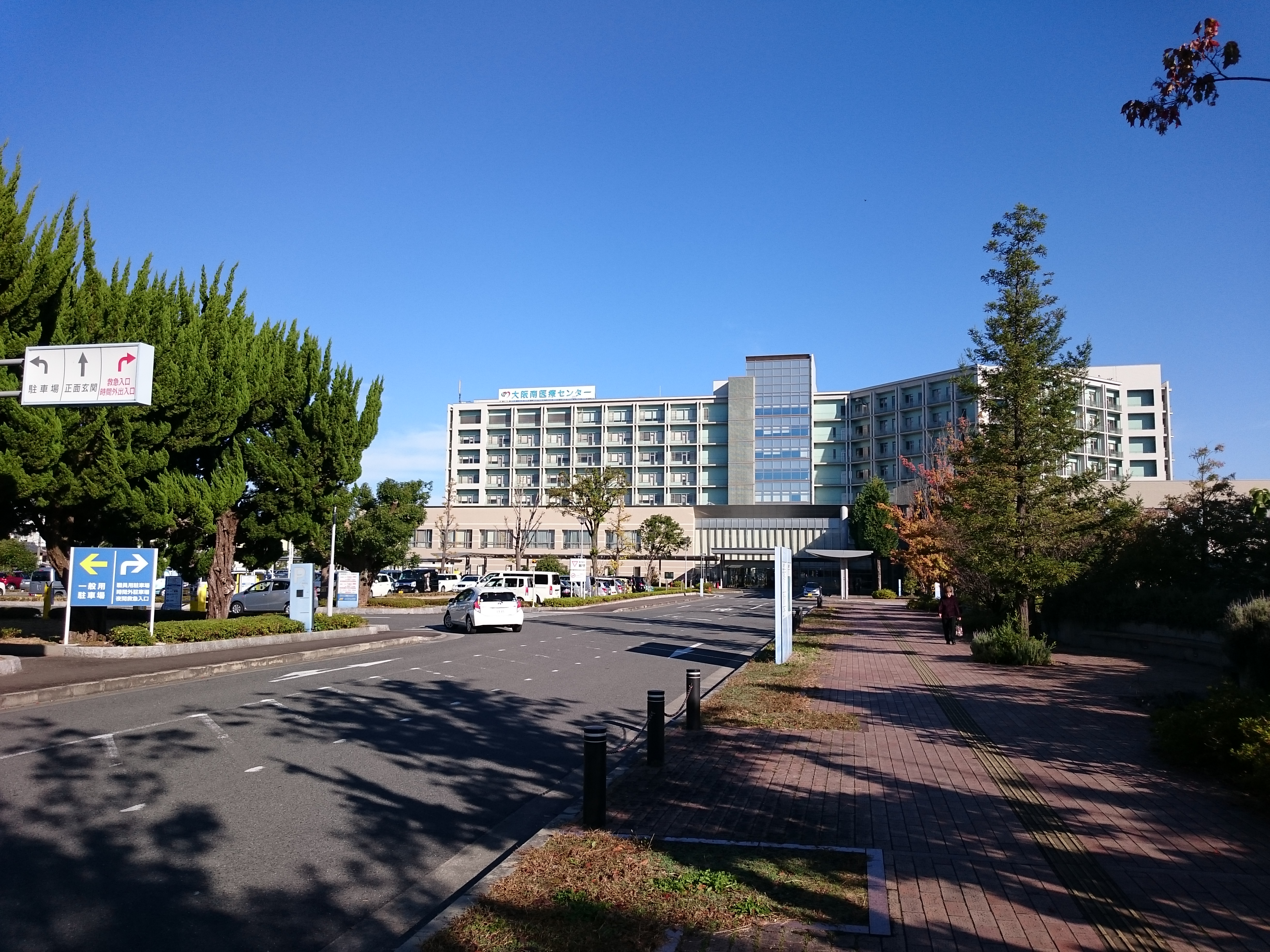 Osaka Minami Medical Center